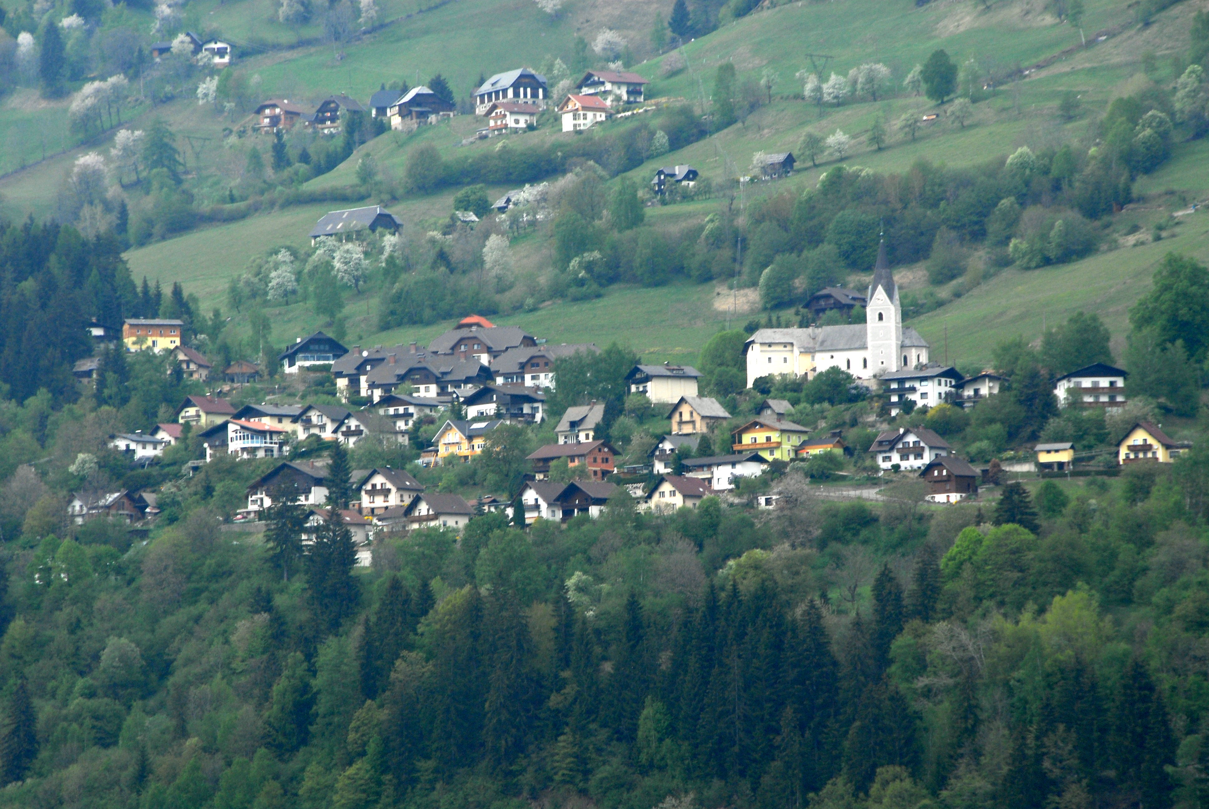 Locality Saint Peter in the community Radenthein, Carinthia, Austria.